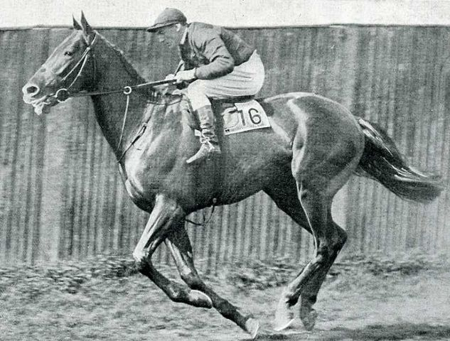 Photograph of racehorse Diophon galloping with jockey. Taken pior to end of august 1925.